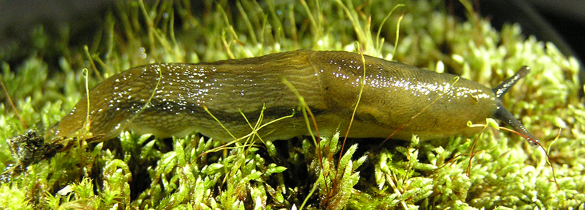 Right side view of juvenile of Bielzia coerulans. Locality: Slovakia: Starohorské vrchy Mts, 10km N of Banská Bystrica, Šachtička 900 m, under dead wood trunks. Date: 15 September 2004.